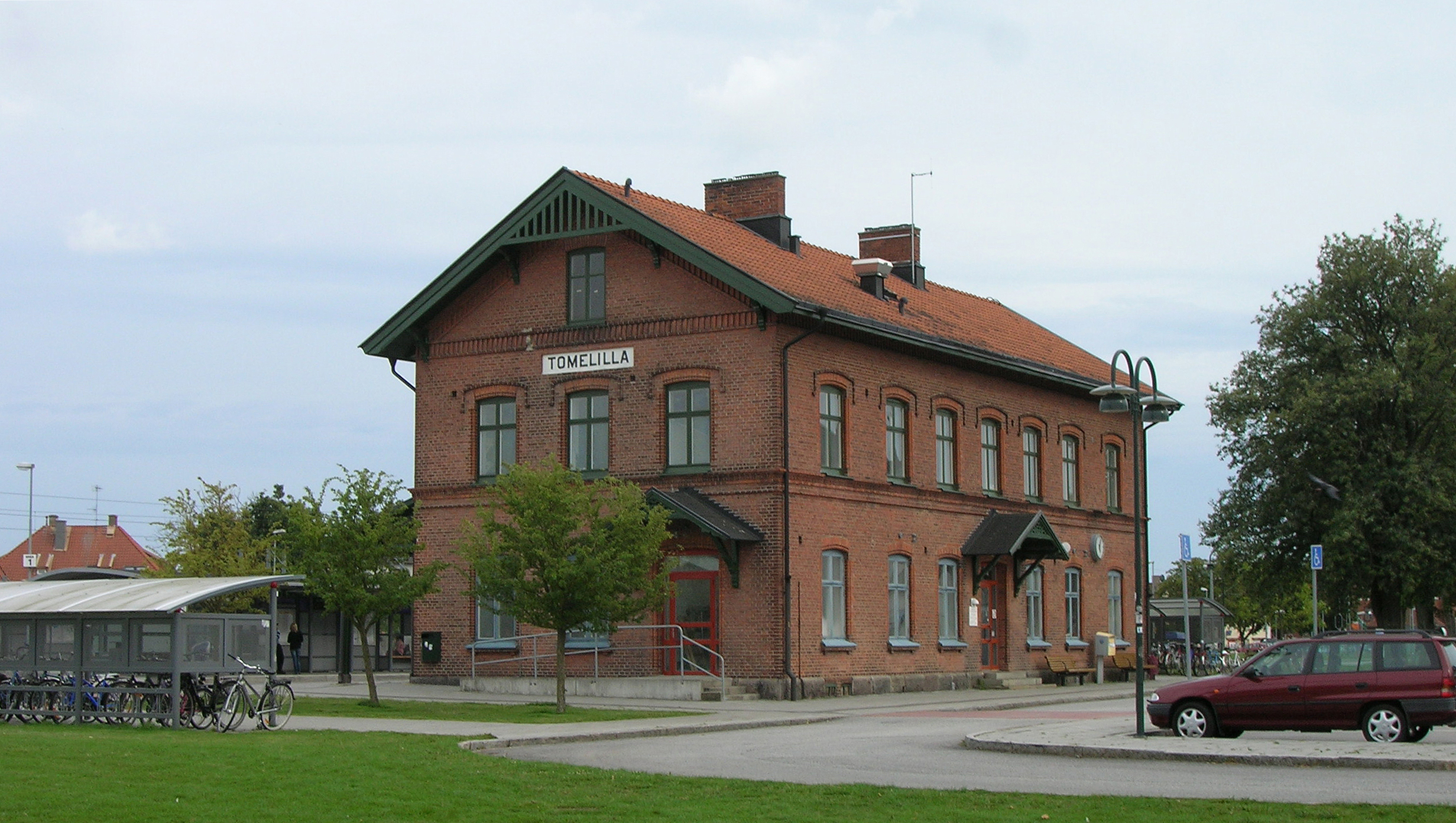 Train station in Tomelilla.